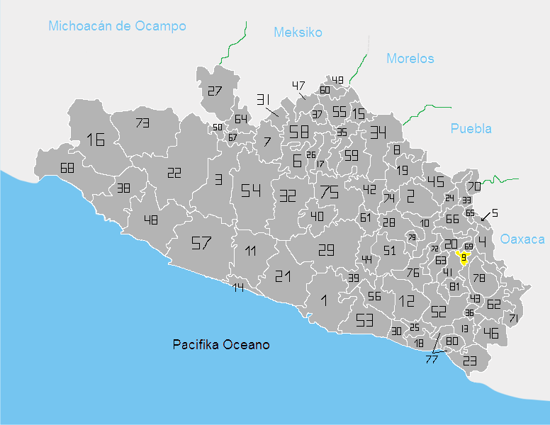 locator map